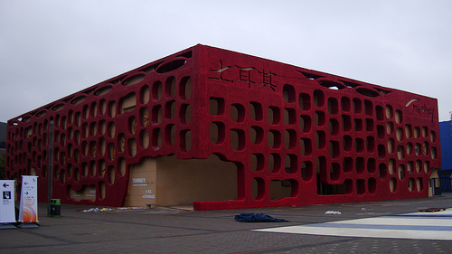 the Turkey pavilion of Shanghai expo2010.